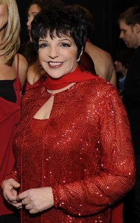 Liza Minnelli at The Heart Truth Fashion Show 2008, cropped from group photo